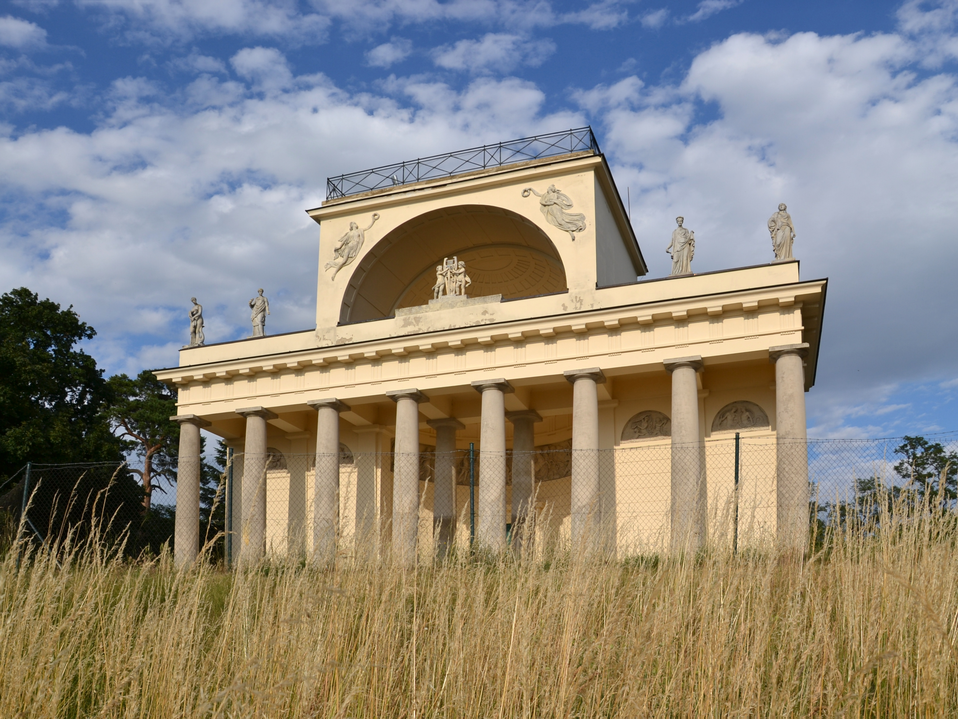 Apollo Temple, Lednice–Valtice Cultural Landscape